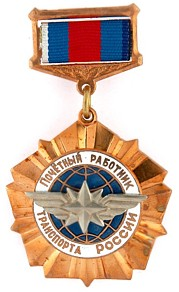 Decoration "Honoured worker of Transport of Russia", award of the Transport Ministry of the Russian Federation